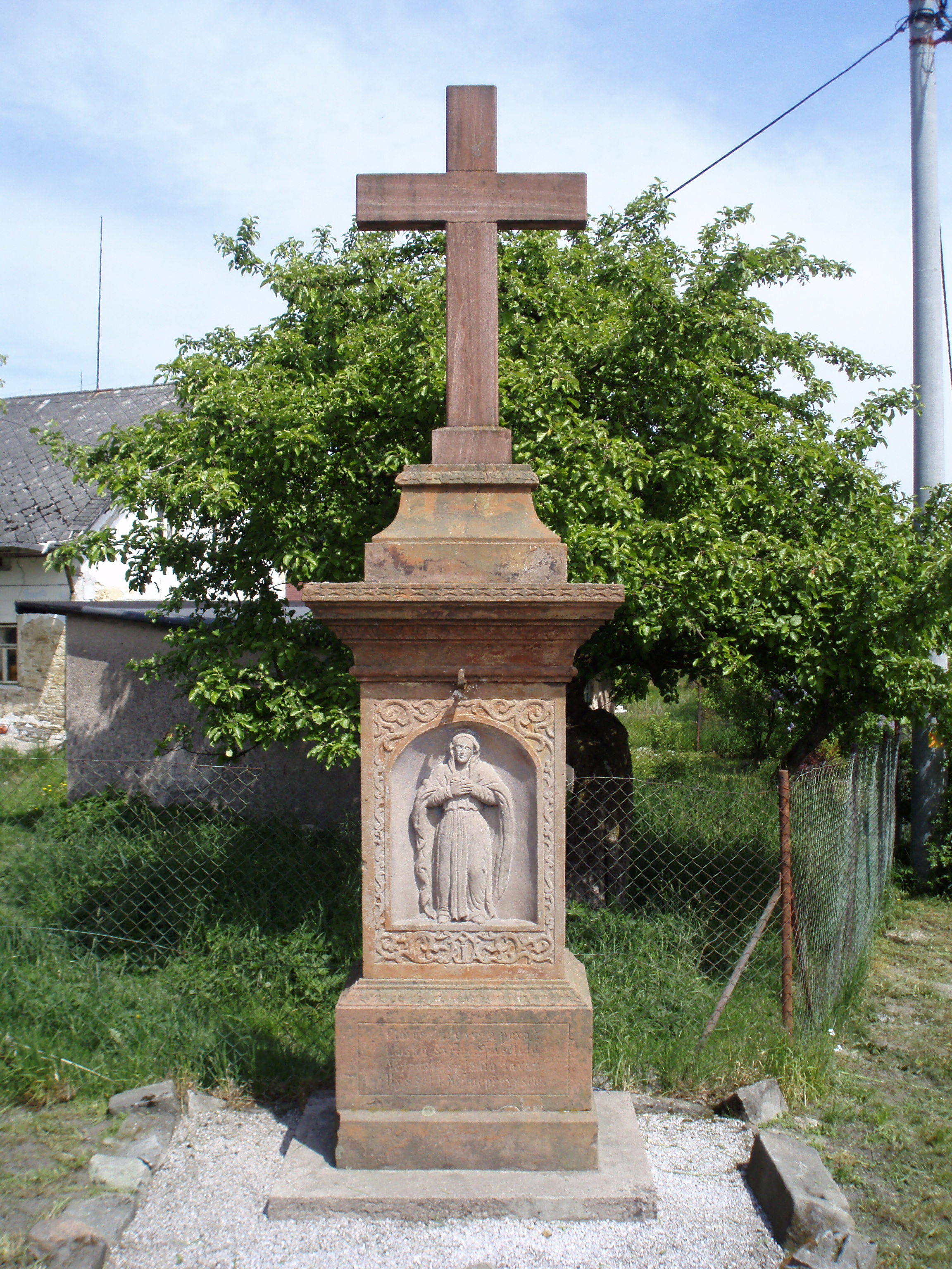 Cross in Křižanov (Hořičky, Czechia)